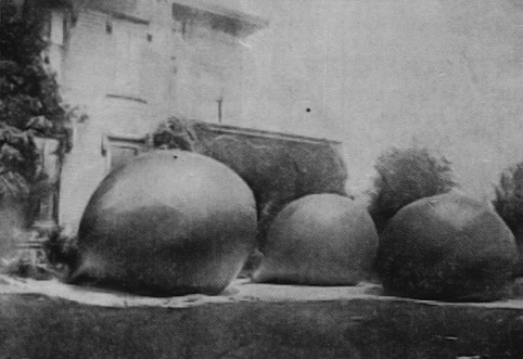 Display of three oxygen-hydrogen balloons made by Carl Myers at his Frankfort (NY) "balloon farm".